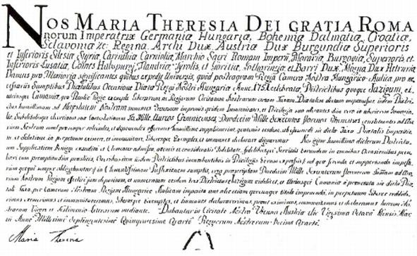 Redemption-diplom by hungarian Queen Maria Theresia for the jassic and cuman families into their medieval privileges